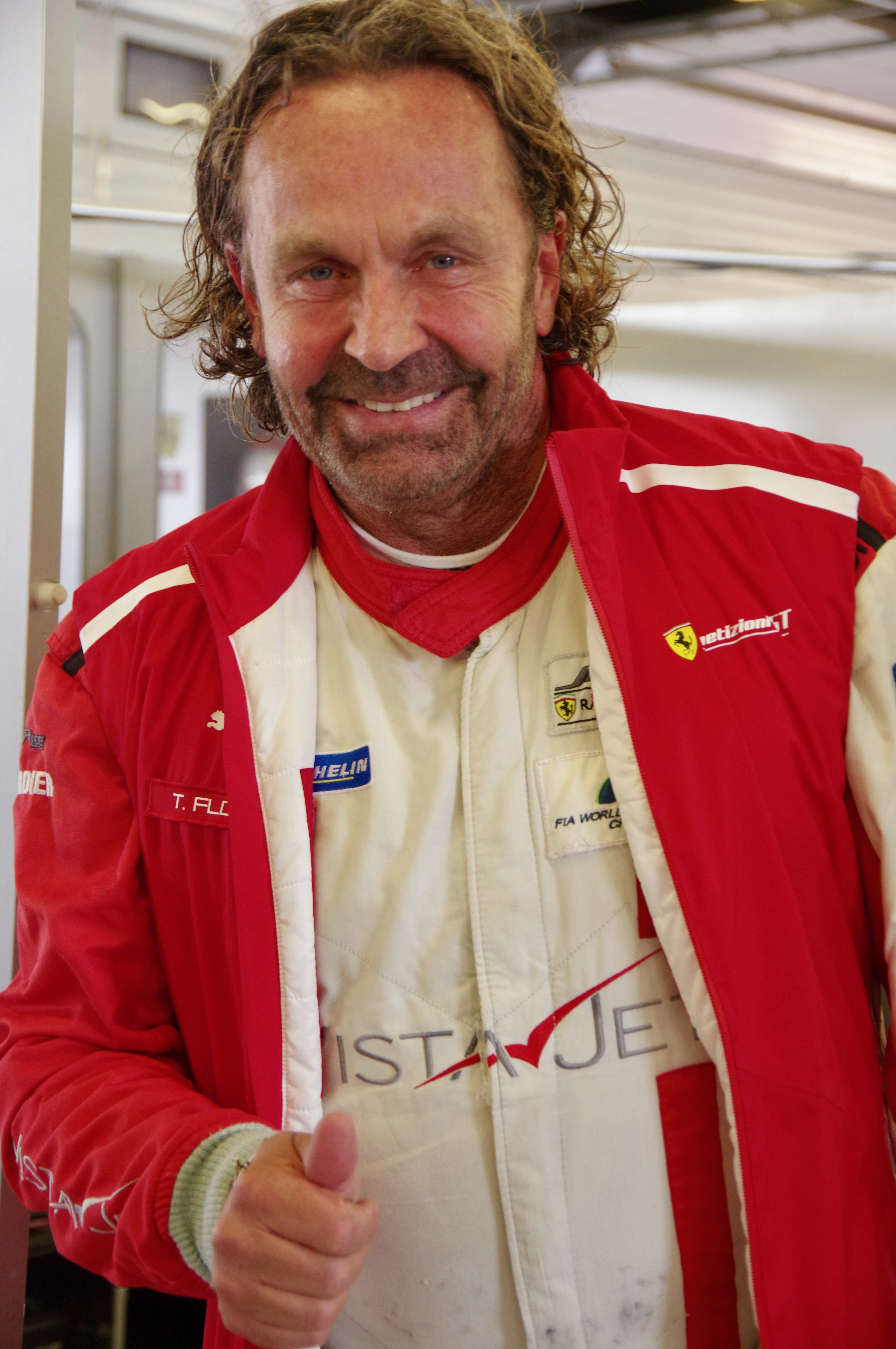 Thomas Flohr, driver of AF Corse's Ferrari 488 GTE, at the 2019 WEC 4 Hours of Silverstone